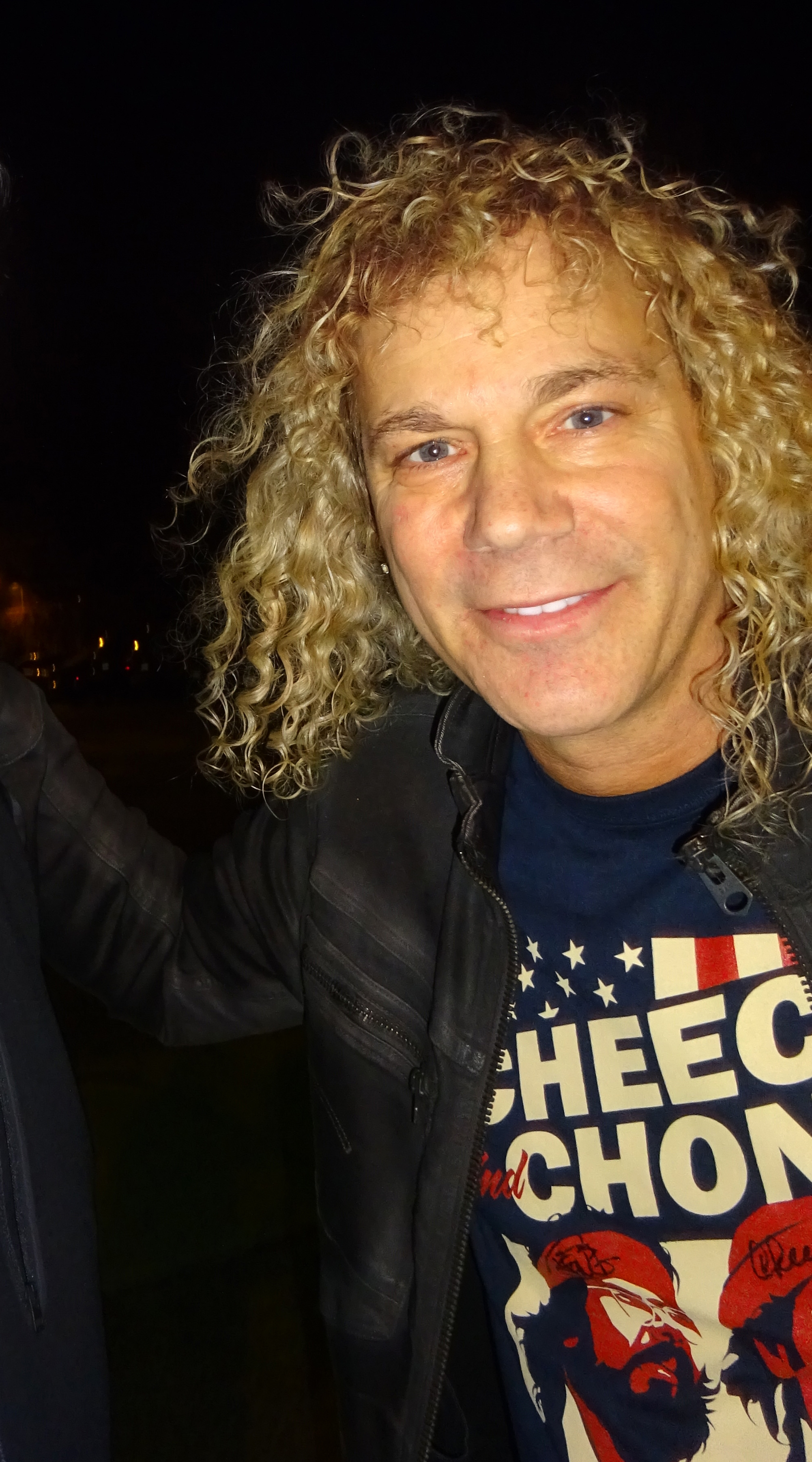 Keyboardist for Bon Jovi. Montclair, NJ, Nov '16